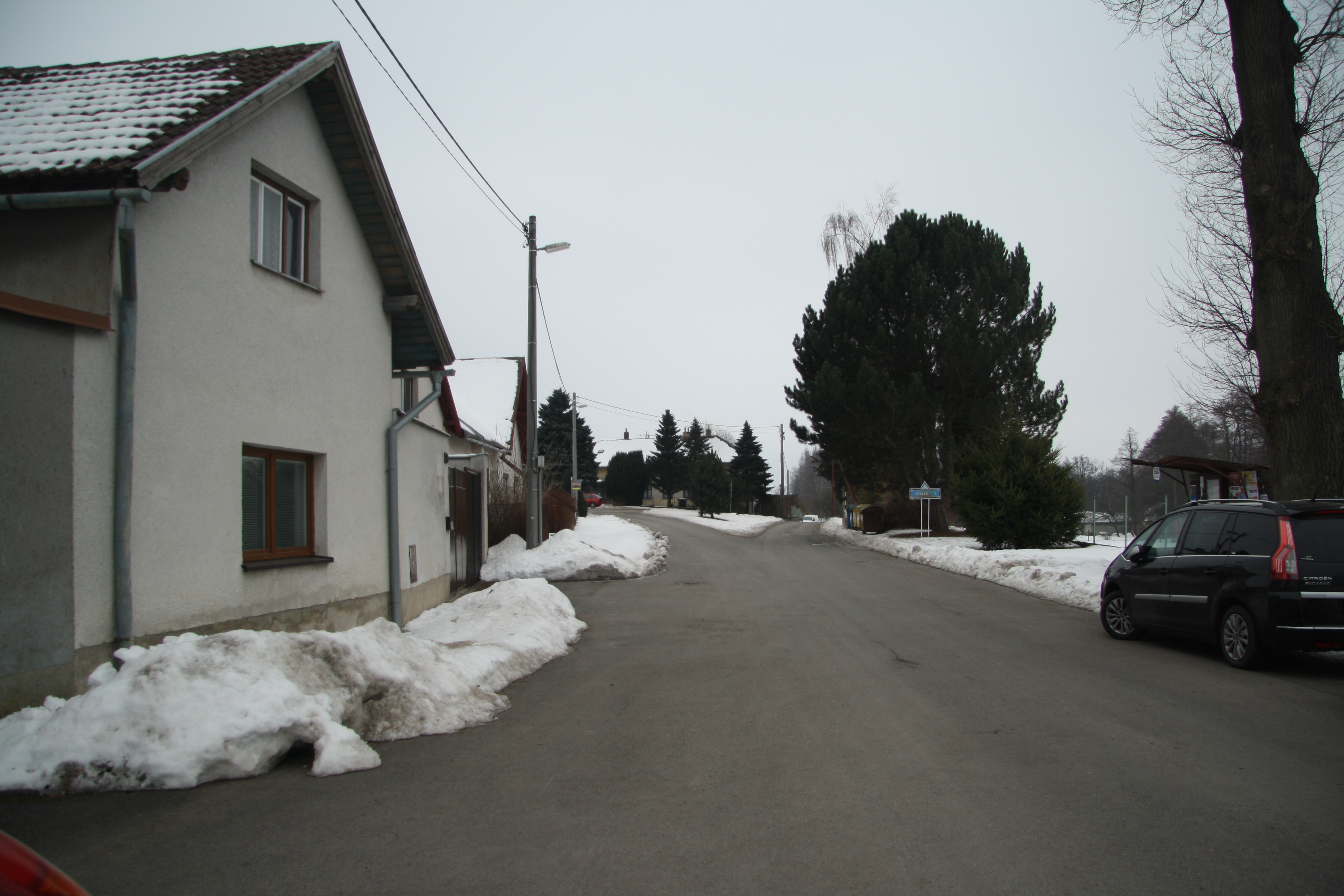 Center of Hubenov, Jihlava District.